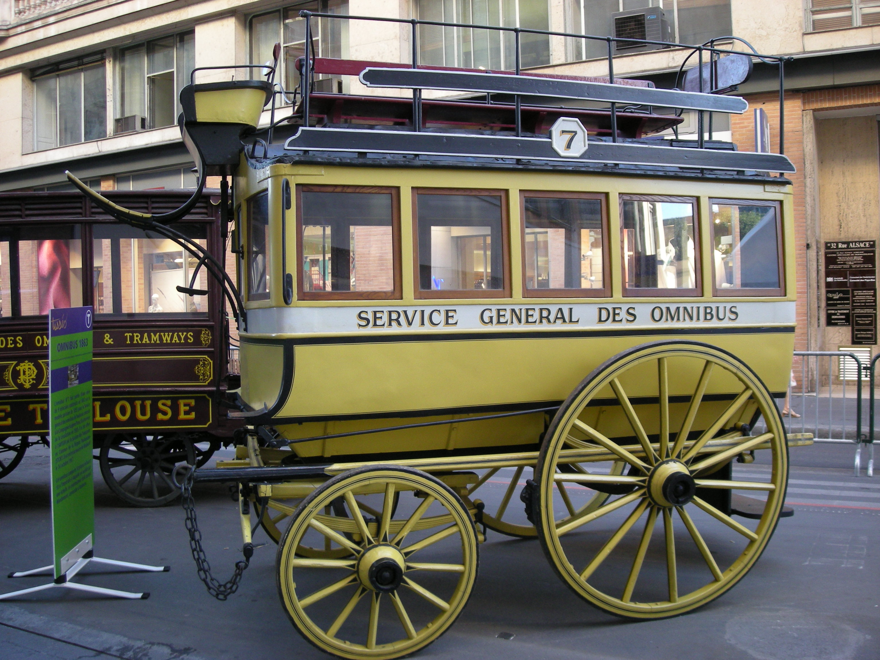 Omnibus No. 7 is part of a series of 9 vehicules built in 1863 on the Parisian model 1855 for general service bus from Toulouse conceded to the company Eugene Pons. It was withdrawn from circulation in 1905. It was offered to the society AMTUIR transit the Toulouse area (STCRT). He joined the museum of malakoff October 24, 1957. The Omnibus has 12 seats downstairs and 10 to the upper deck which is accessed by a ladder. The builder was Joseph Mandement, metalbuilder in Toulouse.